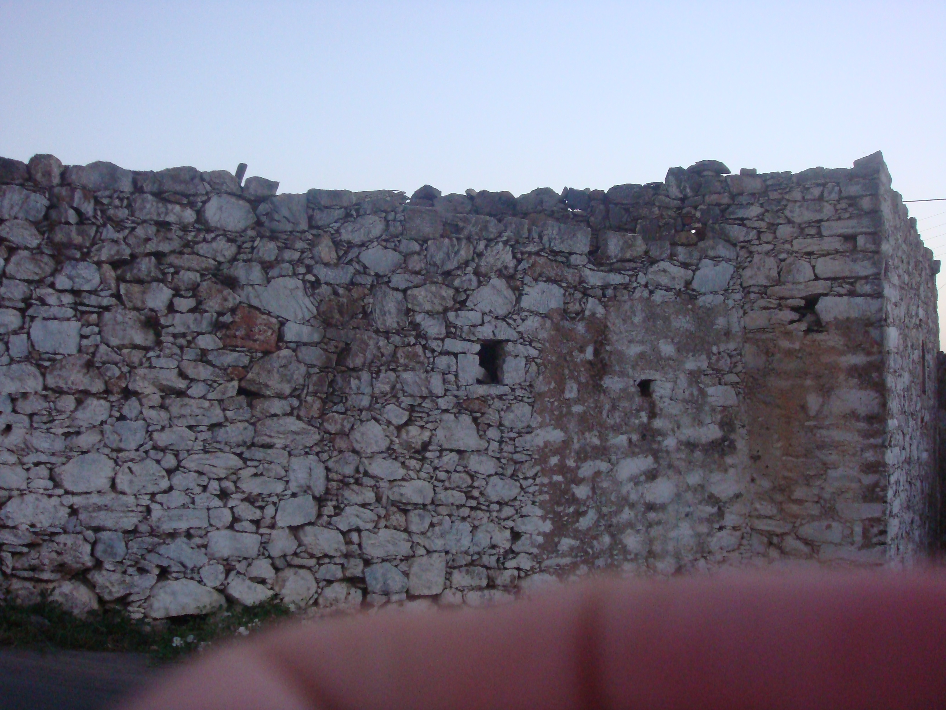 A view from Agia Paraskevi Pediados, in Iraklion prefecture.